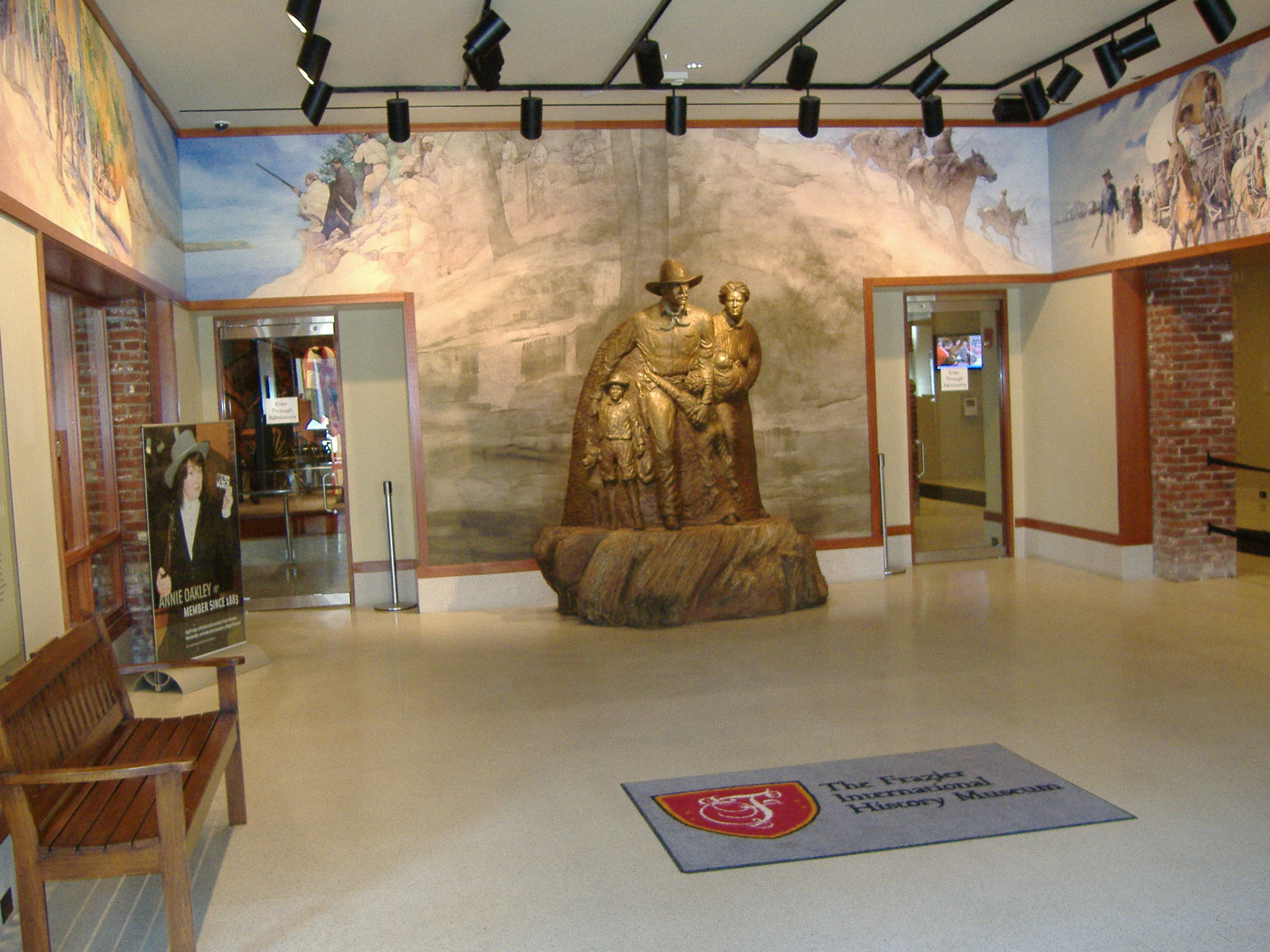 The lobby of the Frazier International History Museum in Louisville, Kentucky.